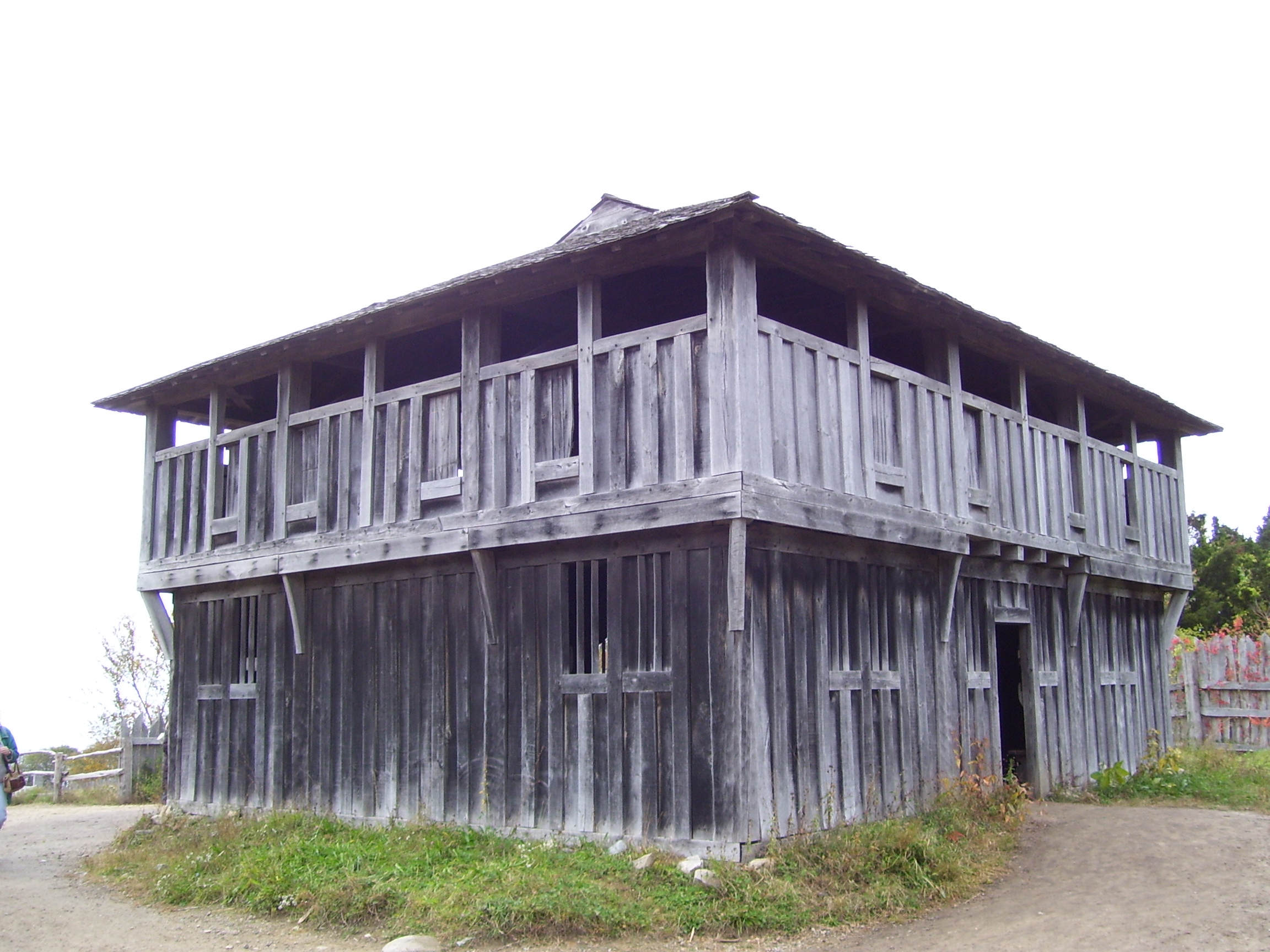 My 2009 photo from Plimoth Plantation in Plymouth, Massachusetts, USA.